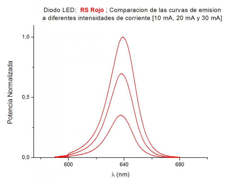 Fig. 12a Gráfica de Familia de curvas de luminosidad del diodo LED RS-Rojo medido en el Departamento de Fotónica de la ETSI de Telecomunicaciones (UPM).